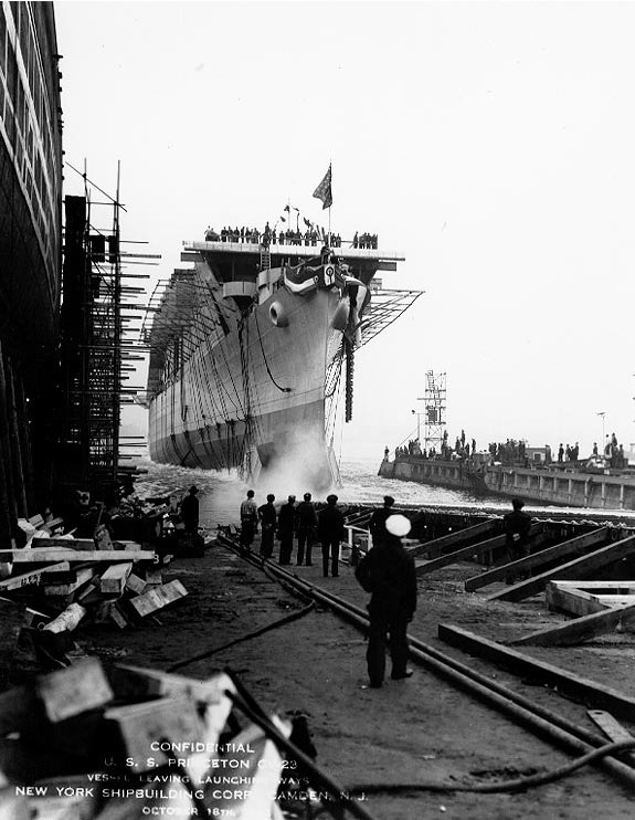 USS Princeton (CV-23) launching, at the New York Shipbuilding Corporation shipyard, Camden, New Jersey, on 18 October 1942.